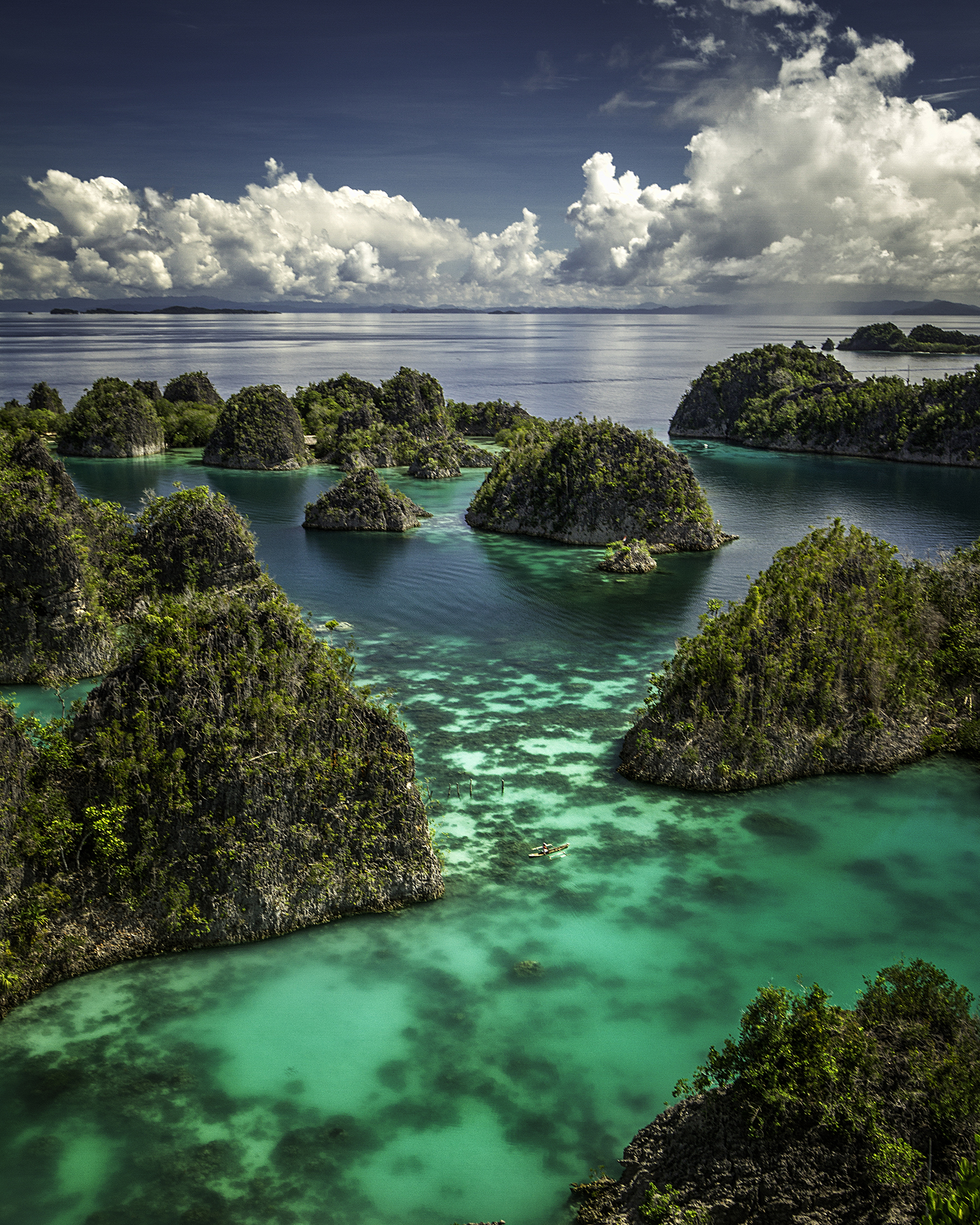 Raja Ampat islands